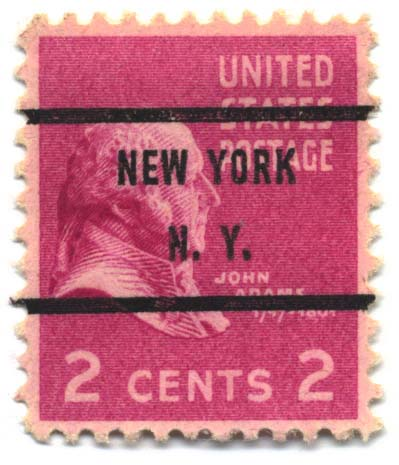 Scan of United States 2c stamp of 1938 with precancel